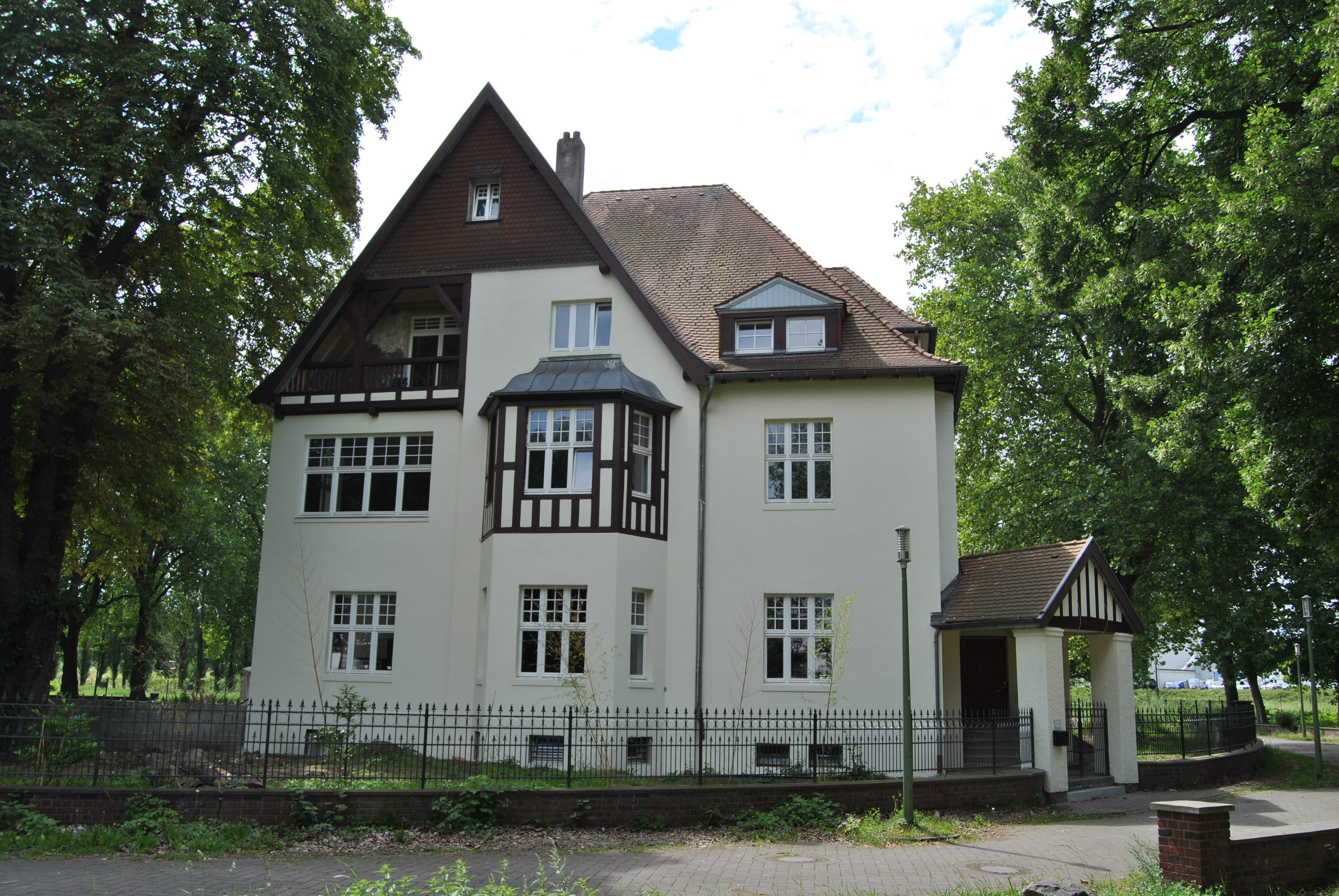 This photograph was taken with a Nikon D3000 This image shows a heritage building in Germany, located in the North Rhine-Westphalian city Duisburg. Duisburg-Friemersheim: Umfangreich renovierte Direktorenvilla (Villenstraße 2) in der denkmalgeschützten, jedoch vom Verfall bedrohten Villenkolonie Bliersheim